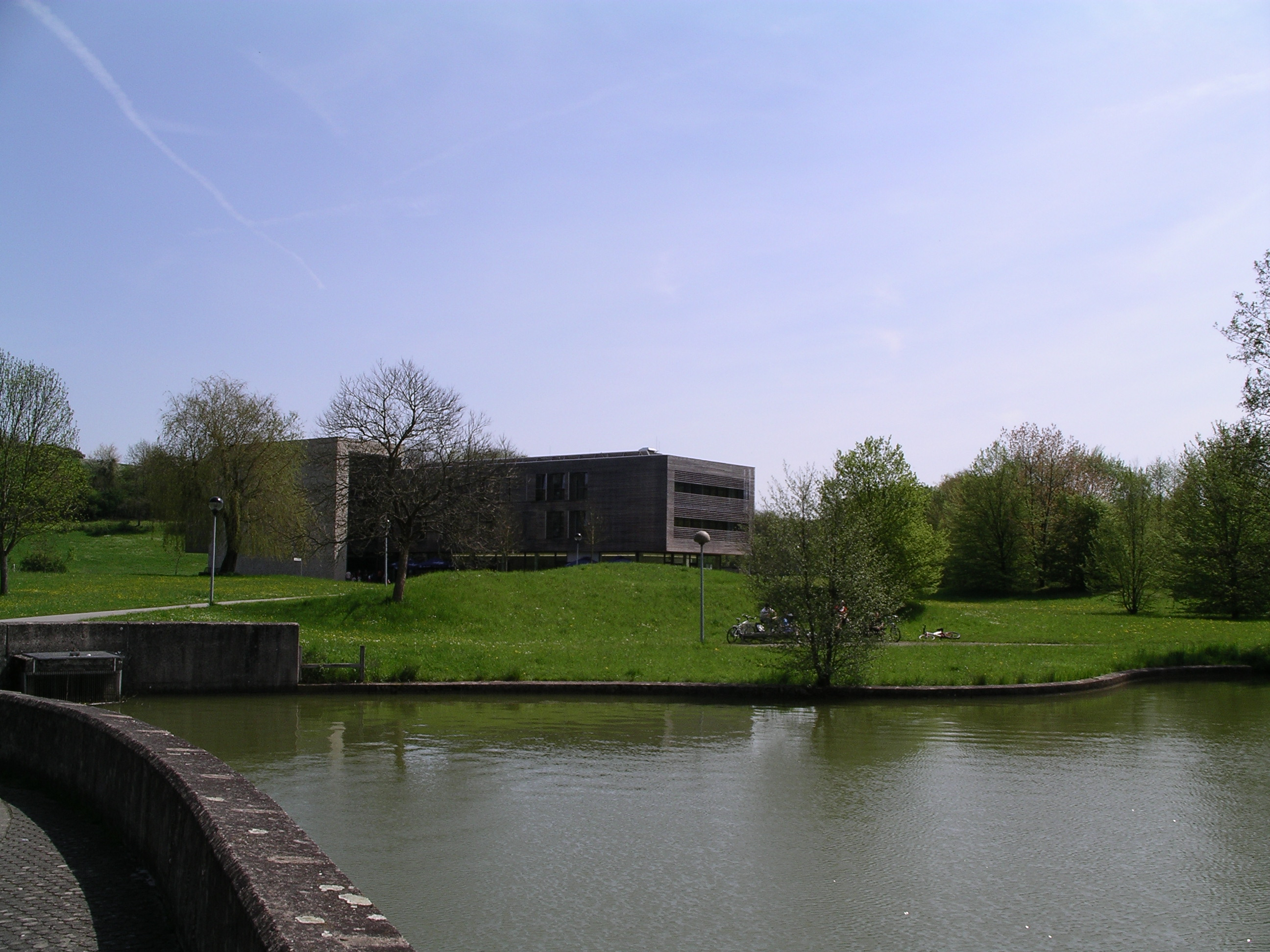 Youth Hostel Echternach, Luxembourg